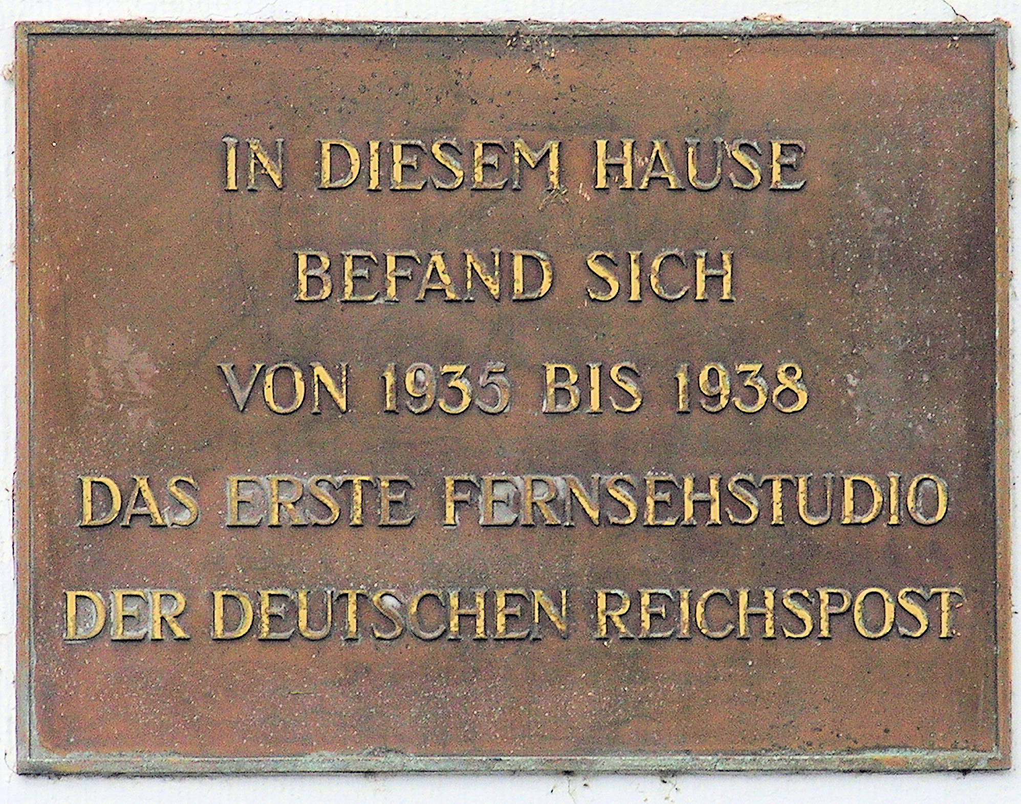 Memorial plaque, Erstes Fernsehstudio der Deutschen Reichspost, Rognitzstraße 9, Berlin-Westend, Germany Koordinate:52°30′33.7″N 13°17′2.2″E / 52.509361°N 13.283944°E